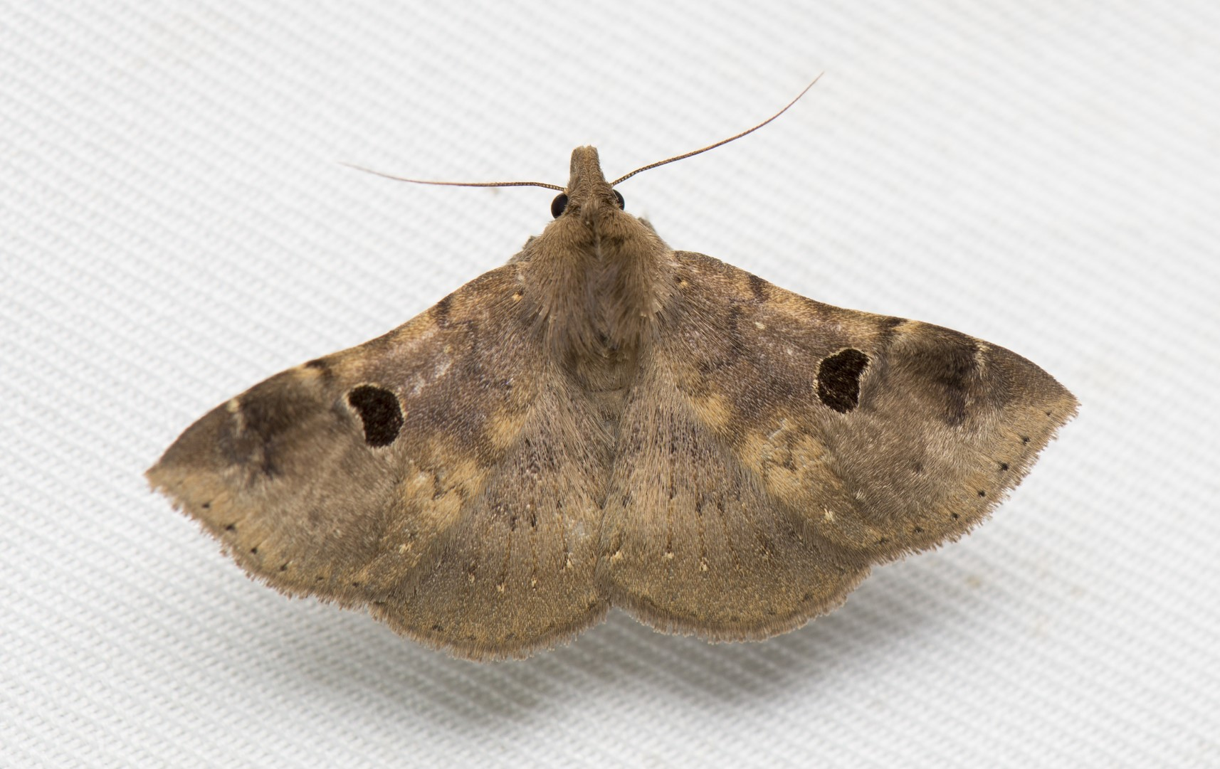 Metacausta punctilinea. Species of insect.